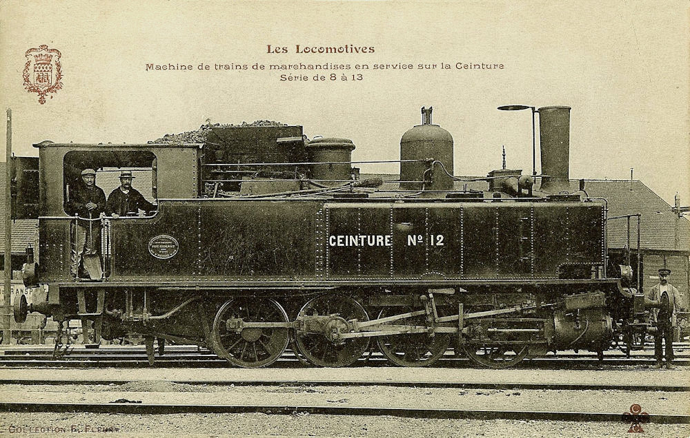 Steam locomotive Ceinture 0-8-0 12.